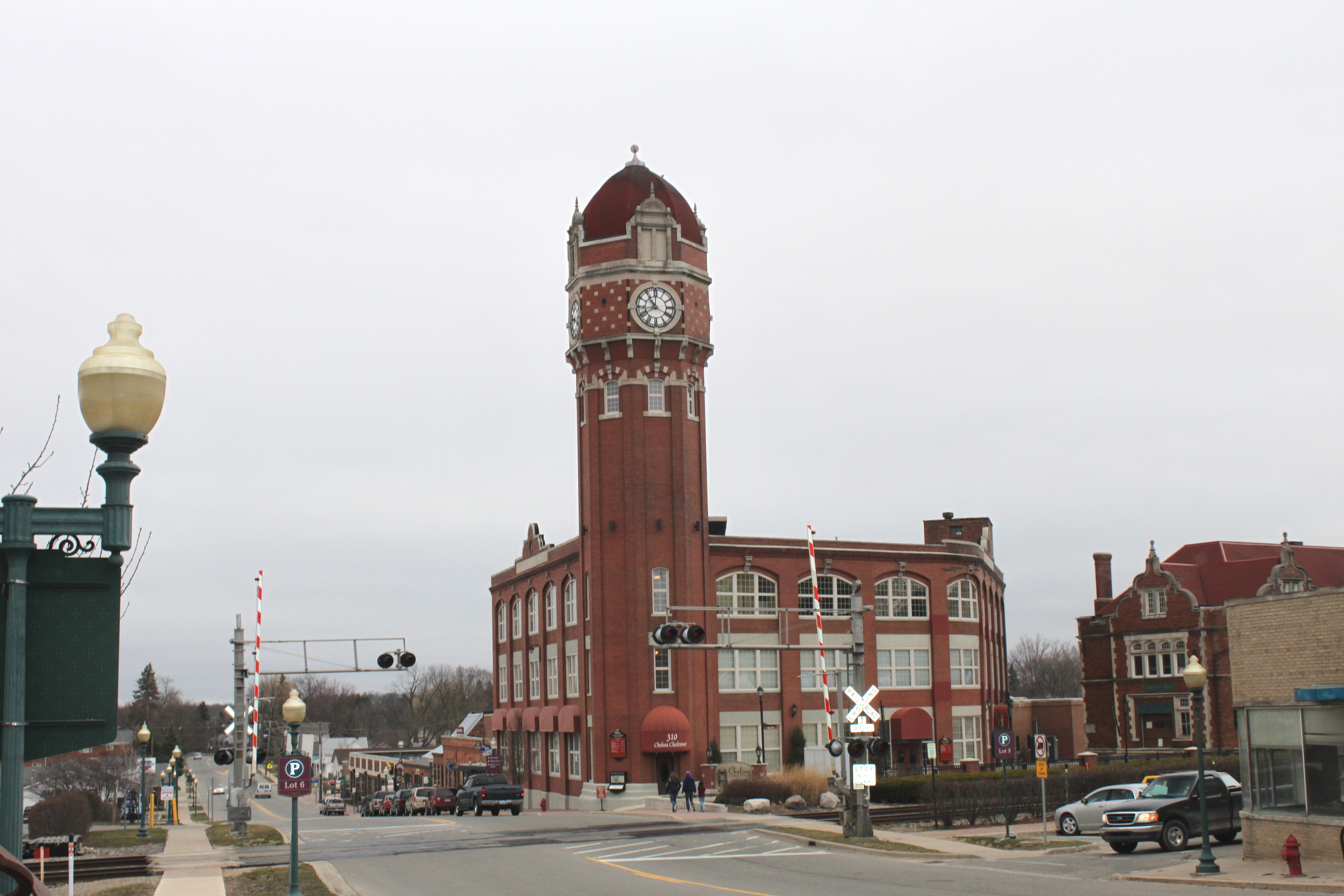 Picture of the Chelsea Michigan Clocktower